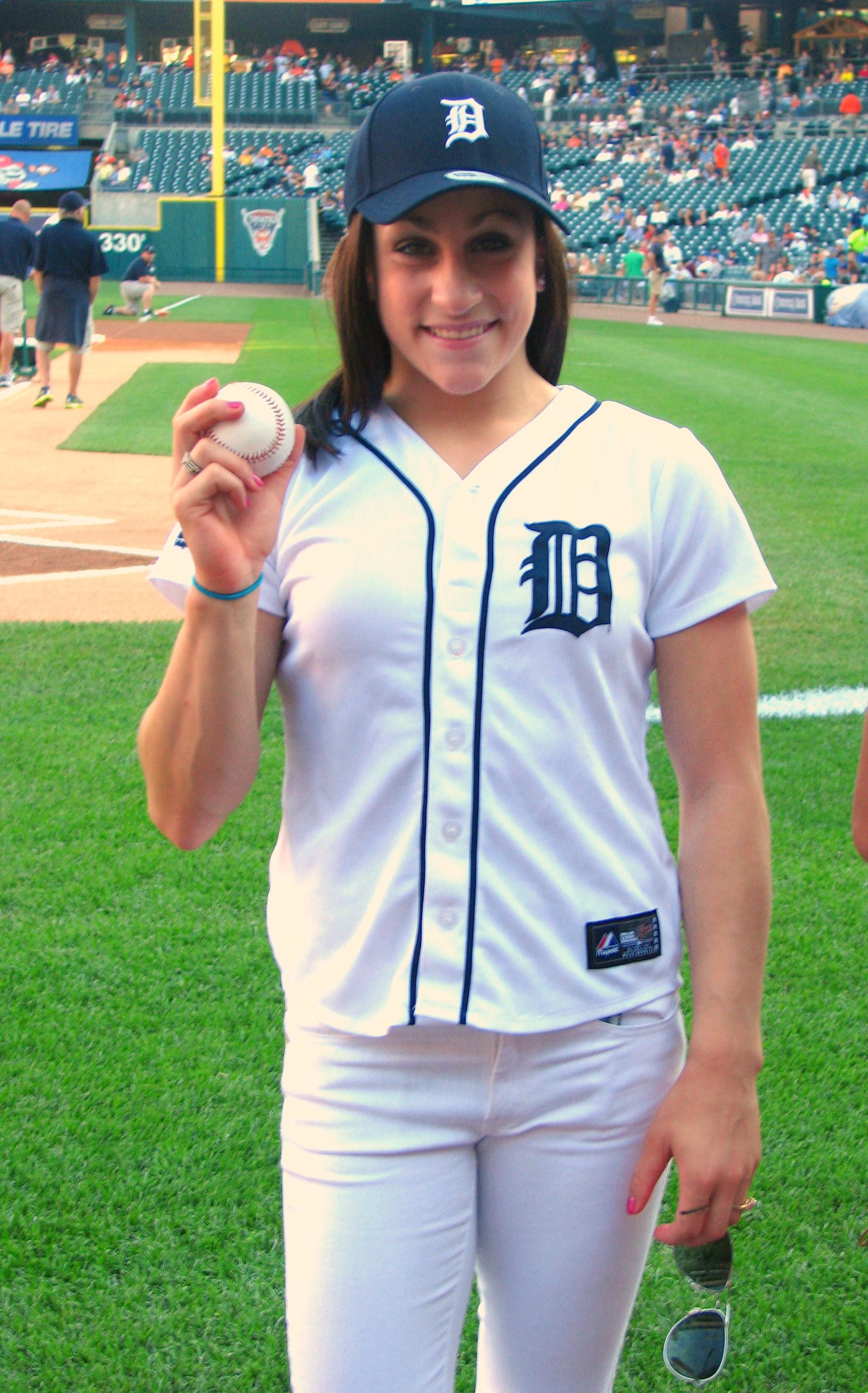 Gold medalist Jordyn Wieber getting ready to throw out the first pitch at Comerica Park.